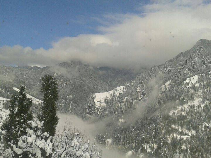 Shangroli (Bamta) Himachal Pradesh